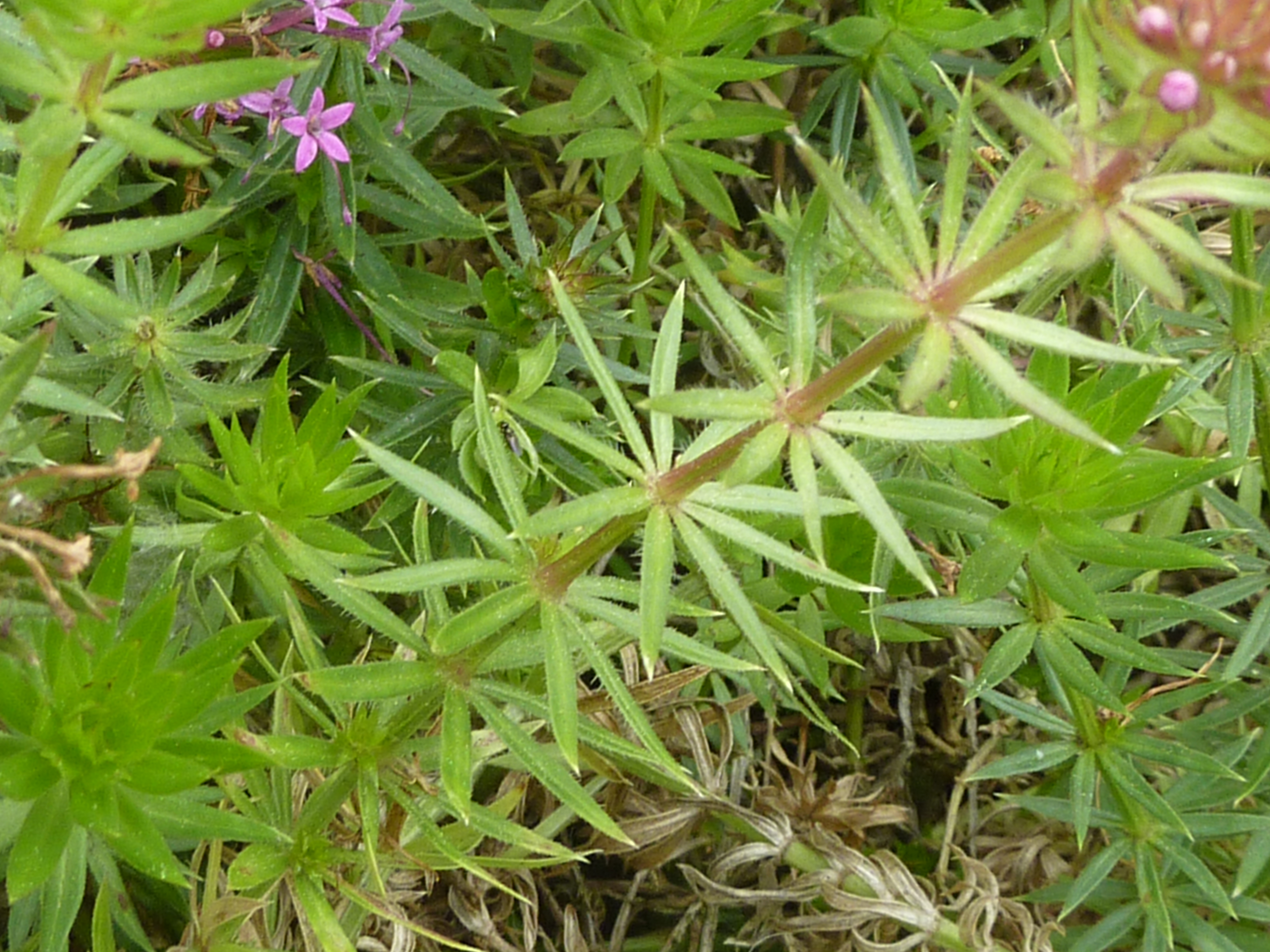 Taken in the Cambridge University Botanic Garden